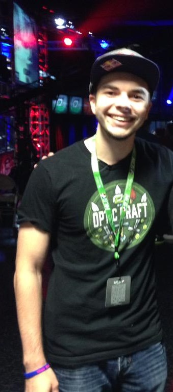 Matt Haag (OpTic Nadeshot) at the Major League Gaming Call of Duty: Advanced Warfare Season 1 Championship in Columbus